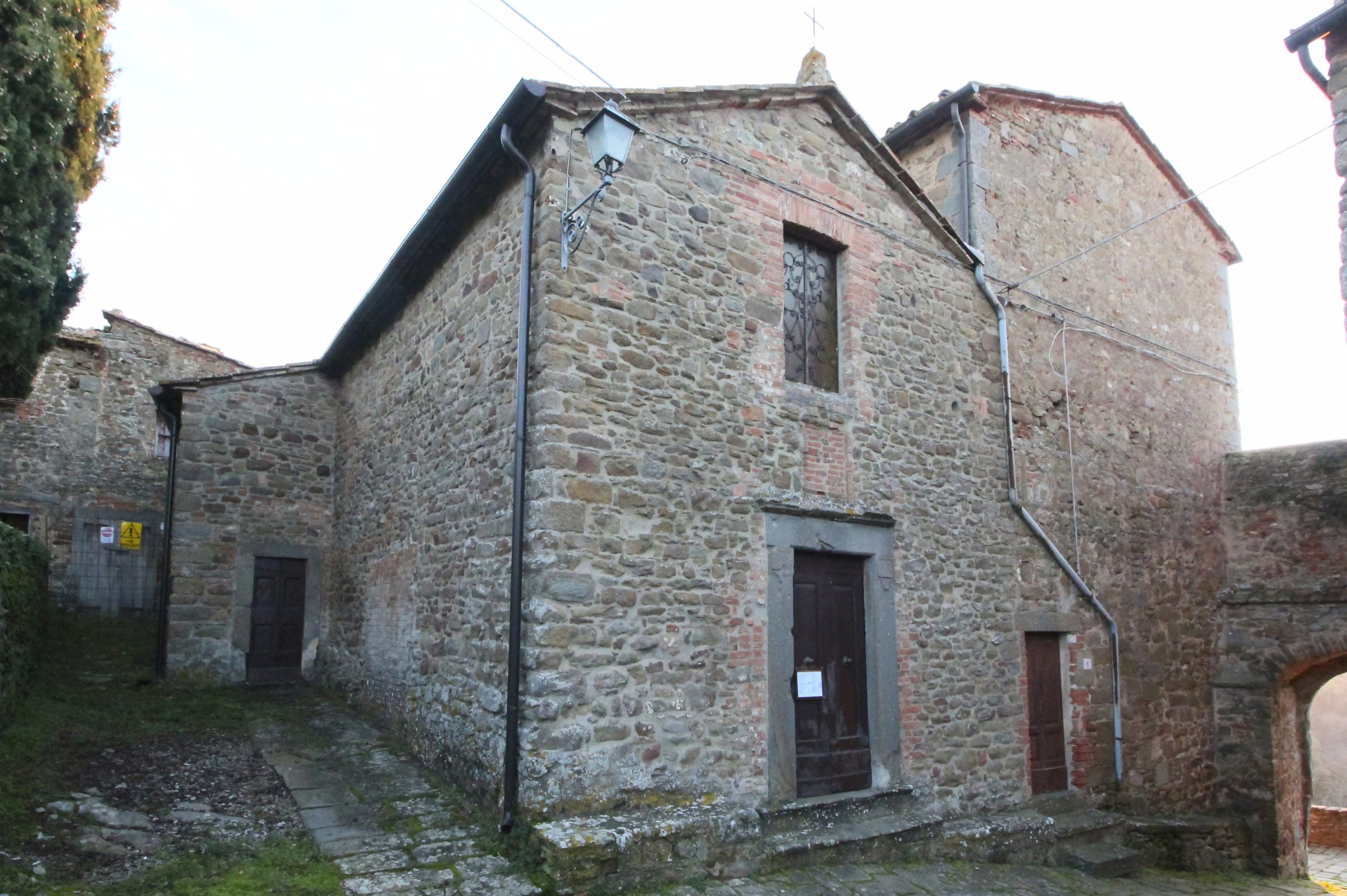 Church San Miniato, Rapale, hamlet of Bucine, Province of Arezzo, Tuscany, Italy